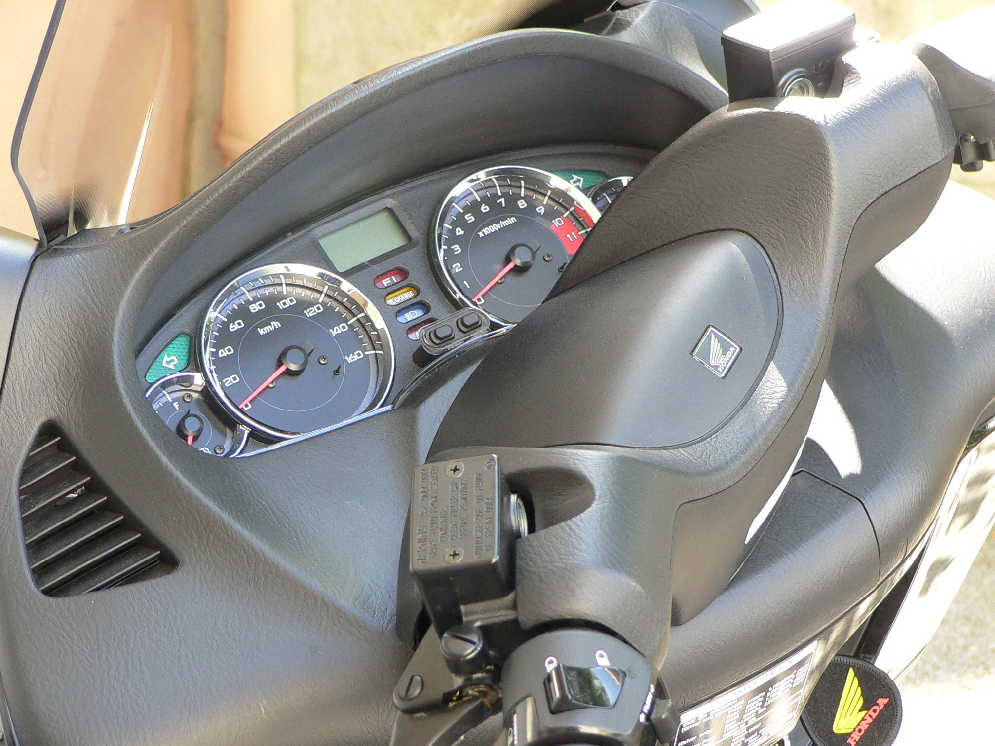 Honda S-Wing 125 ABS-Cockpit